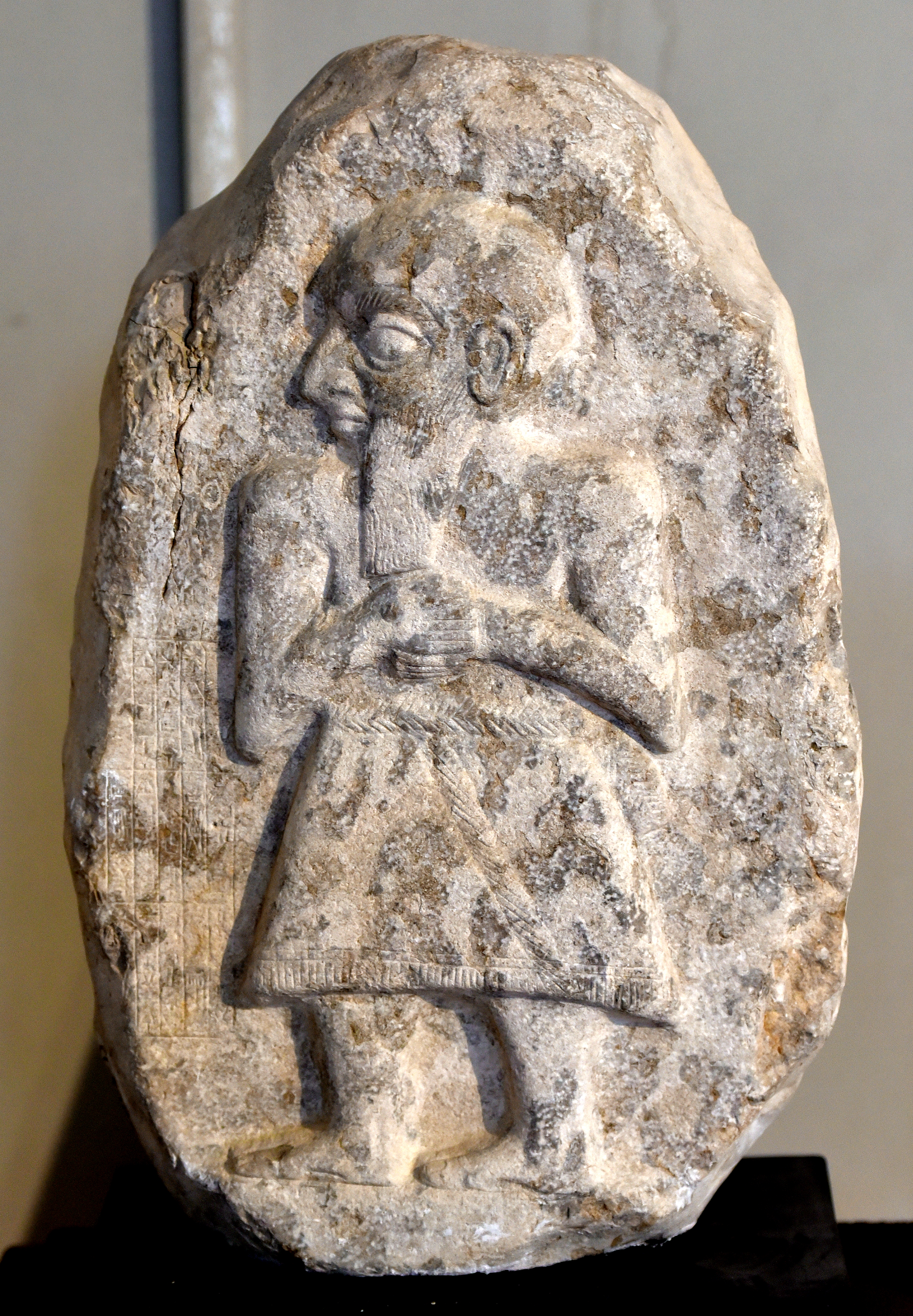 Stele of Ilšu-rabi (probably the governor of Pašime) from Tell Abu Sheeja (Maysan Governorate, Iraq, near Iraq-Iran border), dedicated to Šuda (an Elamite deity). The Old Akkadian cuneiform text on the left mentions the name of the ancient city of Pašime (lies west of Susa). Superficially, the art of depiction of this man appears Early Dynastic, but the cuneiform text evidently dates the stele to the reign of the Akkadian king Manishtushu. Excavated in 2007 CE, 1st excavation season at Tell Abu Sheeja. Akkadian period, reign of the Akkadian king Manishtushu, 2270-2255 BCE. On display at the Iraq Museum in Baghdad, Iraq.